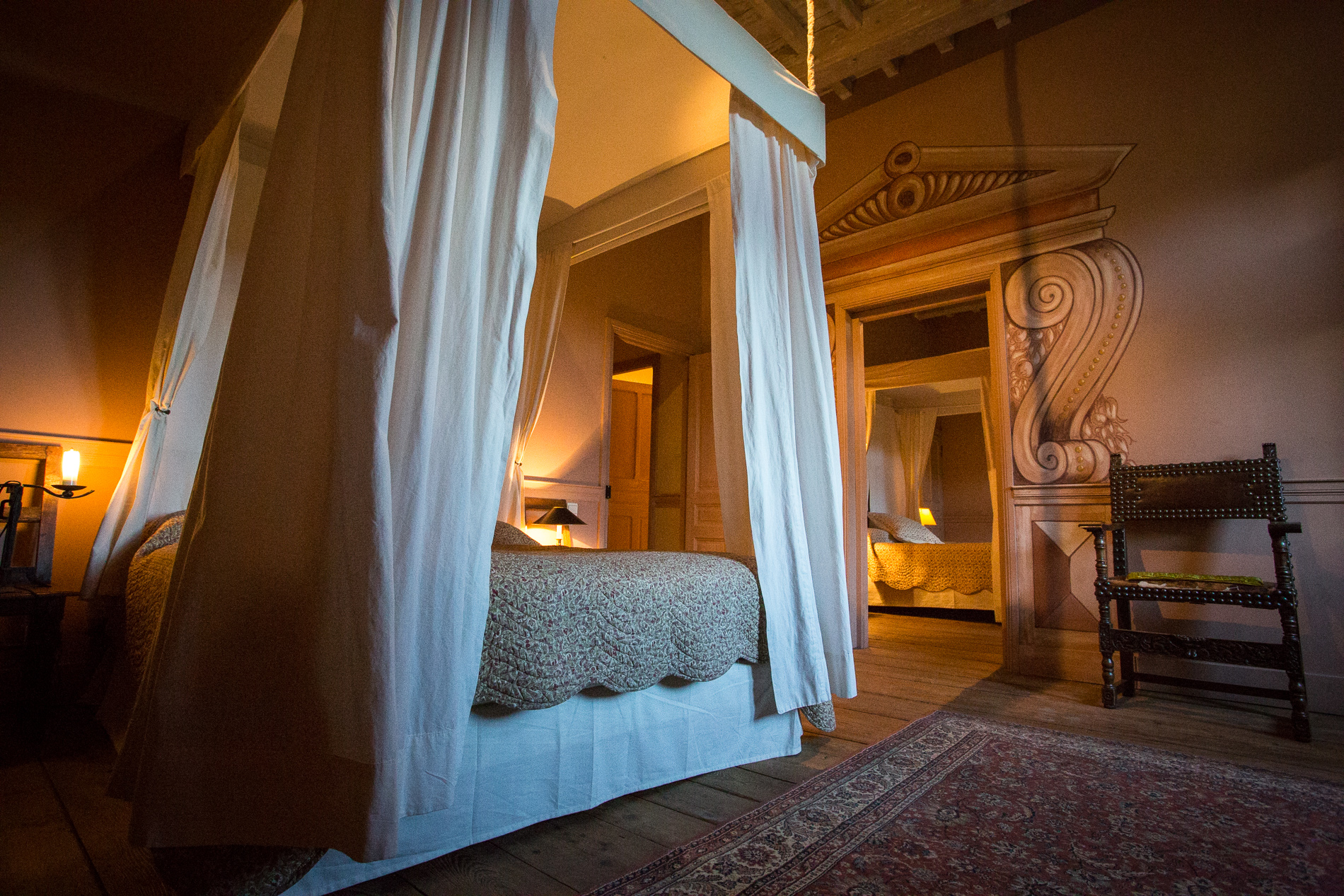 A guest suite at the Château de Chalmazel, a 13th century castle in Chalmazel, France. The castle is operated as a bed and breakfast. This guest suite has two adjoining bedrooms with a shared modern bath and toilet.